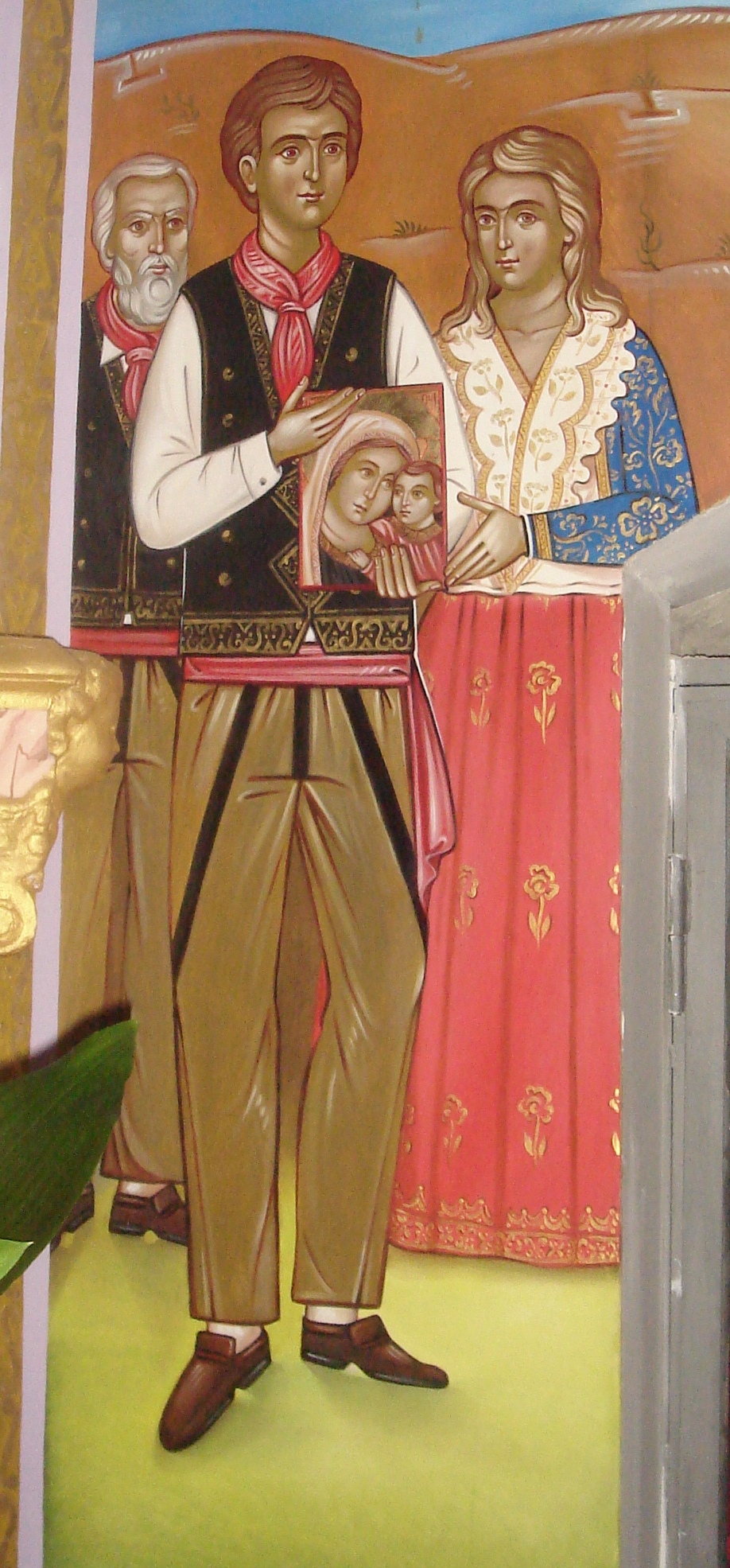 Byzantine painting; Albanian refugees with the Holy Hodegetria, which shows the way